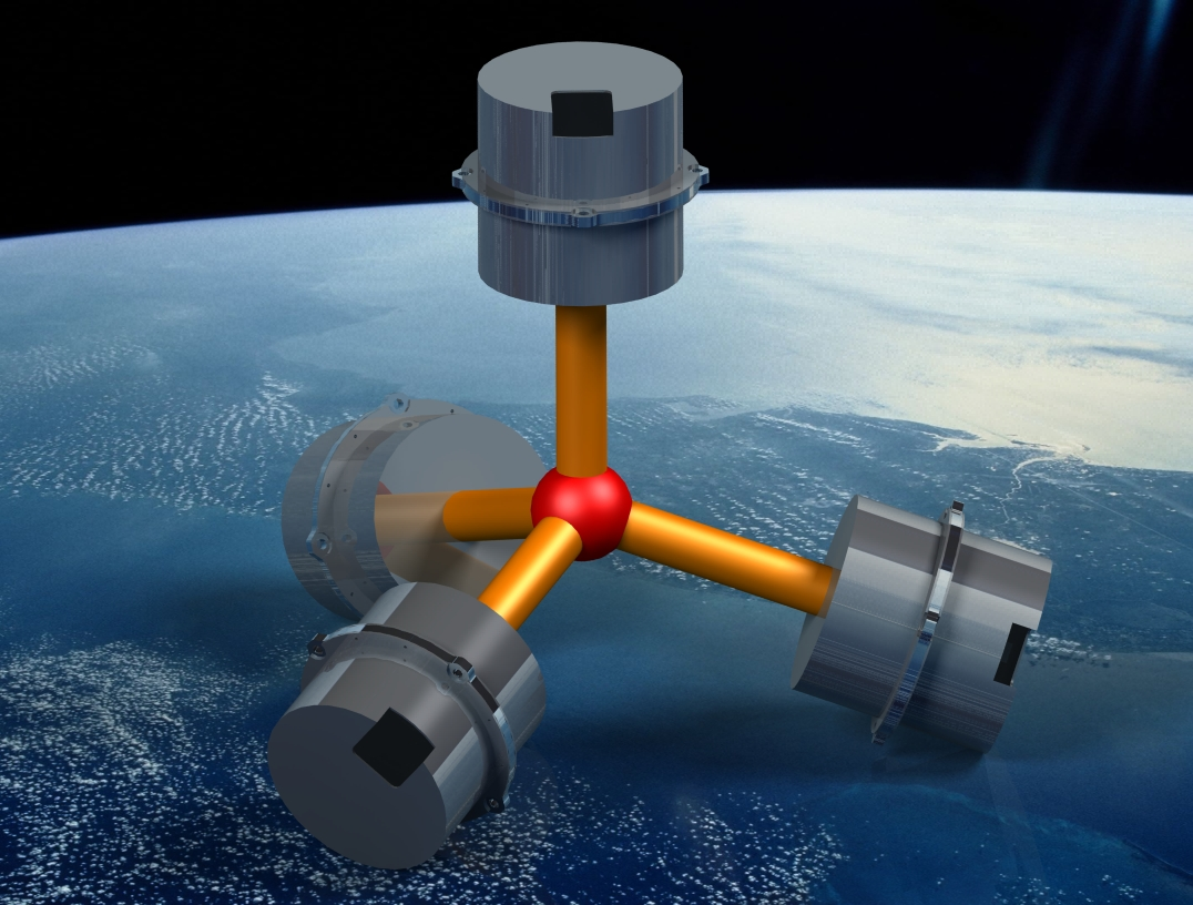 Four Reaction Wheels in a Tetrahedron Configuration. The reaction wheels are positioned along the area-normal of a tetrahedron in space. Thereby it is possible to achieve redundancy.